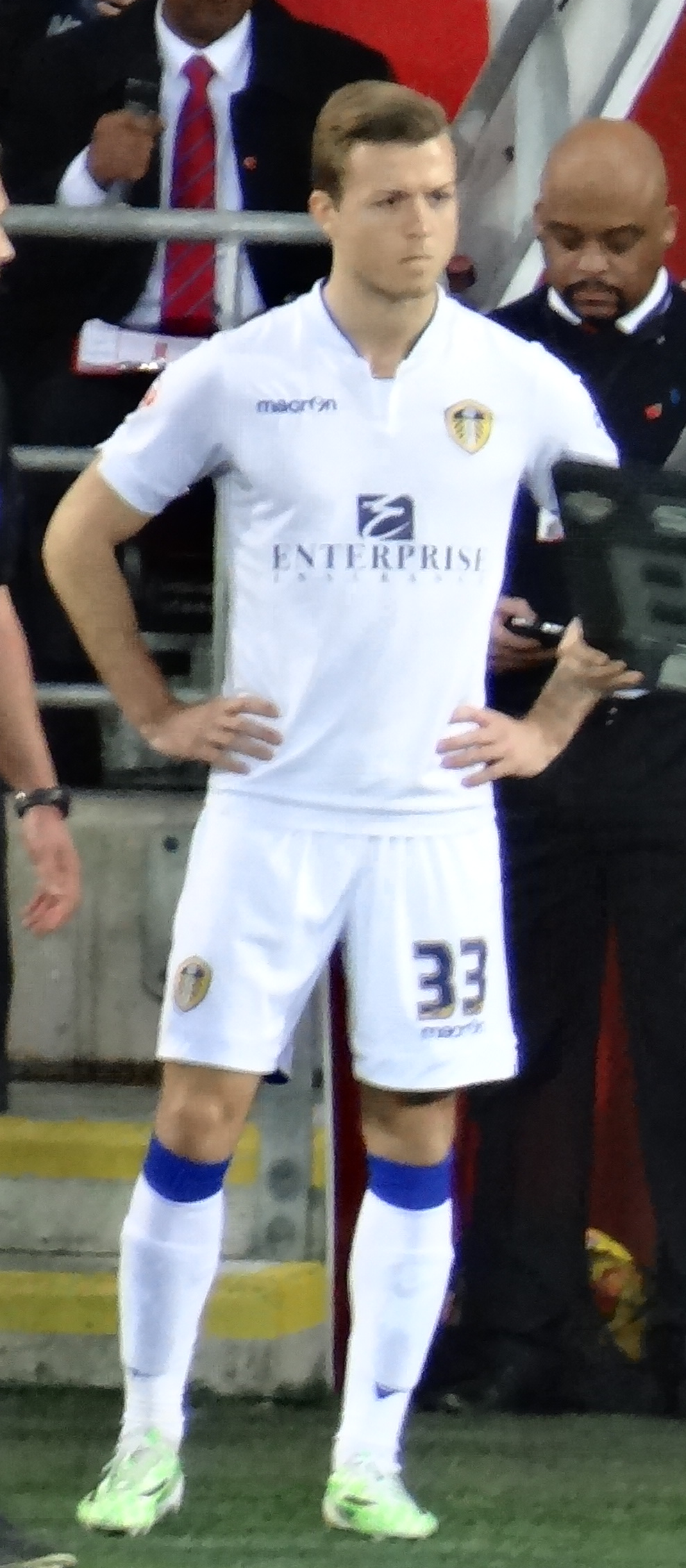 Casper Sloth playing for Leeds United